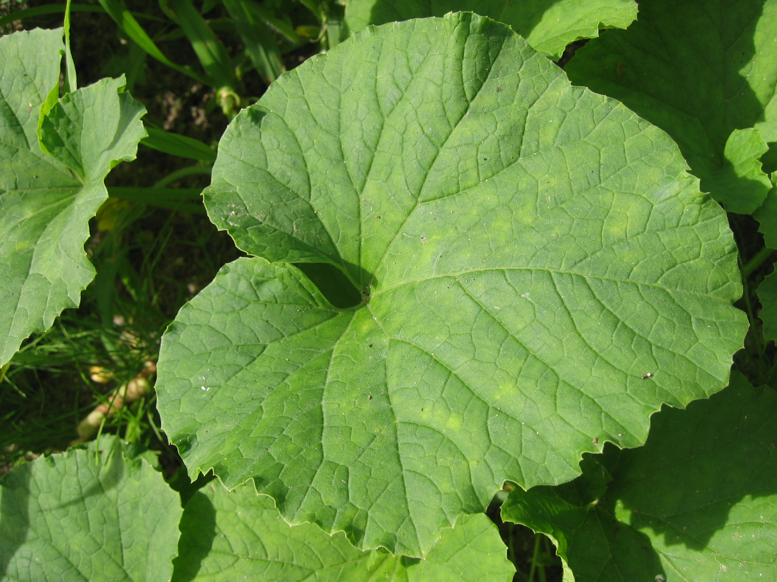 Korean melon (Cucumis melo var. makuwa)